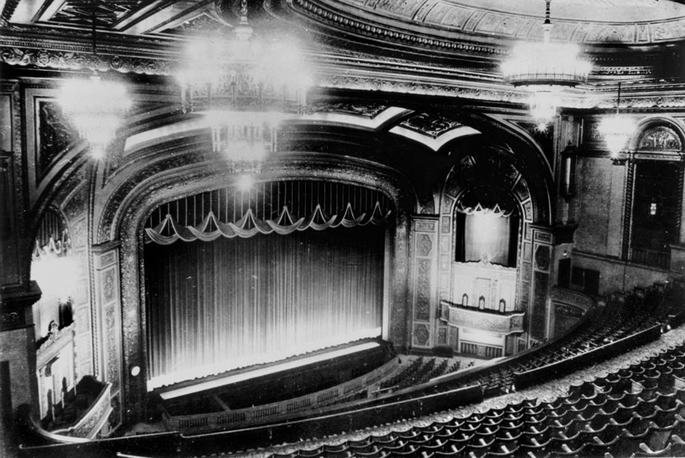 The Hoyts Regent Theatre was built in 1929 and was designed by Charles Hollinshed. The style was both Spanish Gothic and Empire period. Seating at that time was 2,583 patrons and the auditorium was cooled by the first air conditioning in Queensland. Four crystal chandeliers hung from the dress circle ceiling. A WurliTzer Opus no. 2040 theatre organ was installed to entertain the patrons during interval. in the 1950s the organ was dismantled and sold to a private person in New South Wales, but it is now reinstalled in the Queensland Art Gallery's Cinematheque. The Regent is located in Queen Street Mall, between Albert and Edward Streets and today operates as a cinema complex. The downstairs Cinema One is a likeness to the original theatre.